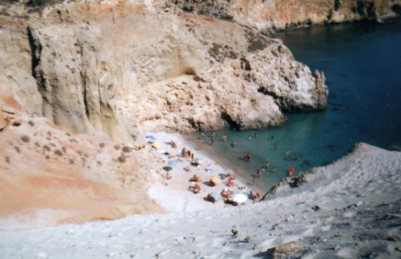 Tsigrado, taken by my own camera.